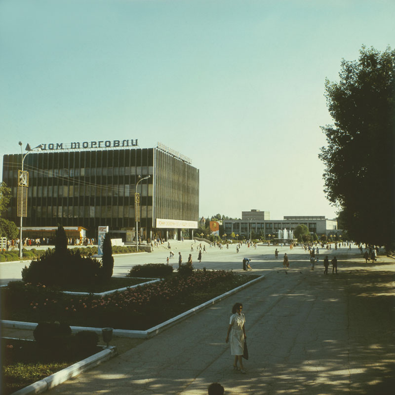 Capital of the north of Moldova.